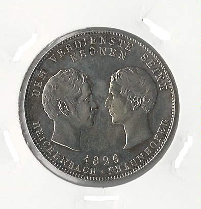 Reverse of historical taler of Bayern 1826. Original image was taken from image from german Wikipedia, which was scan and uploaded there.